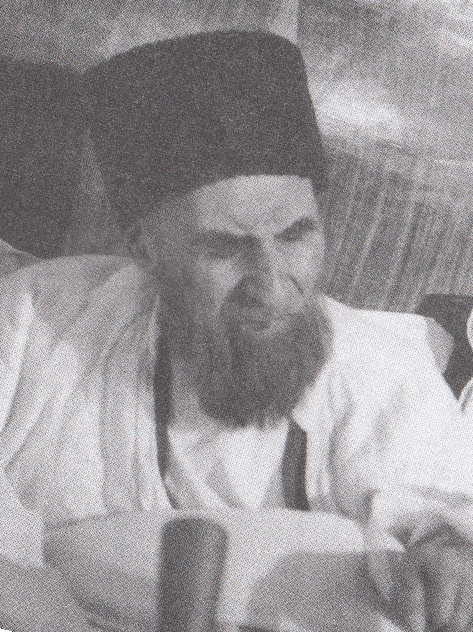 The patient Rahim Arbab